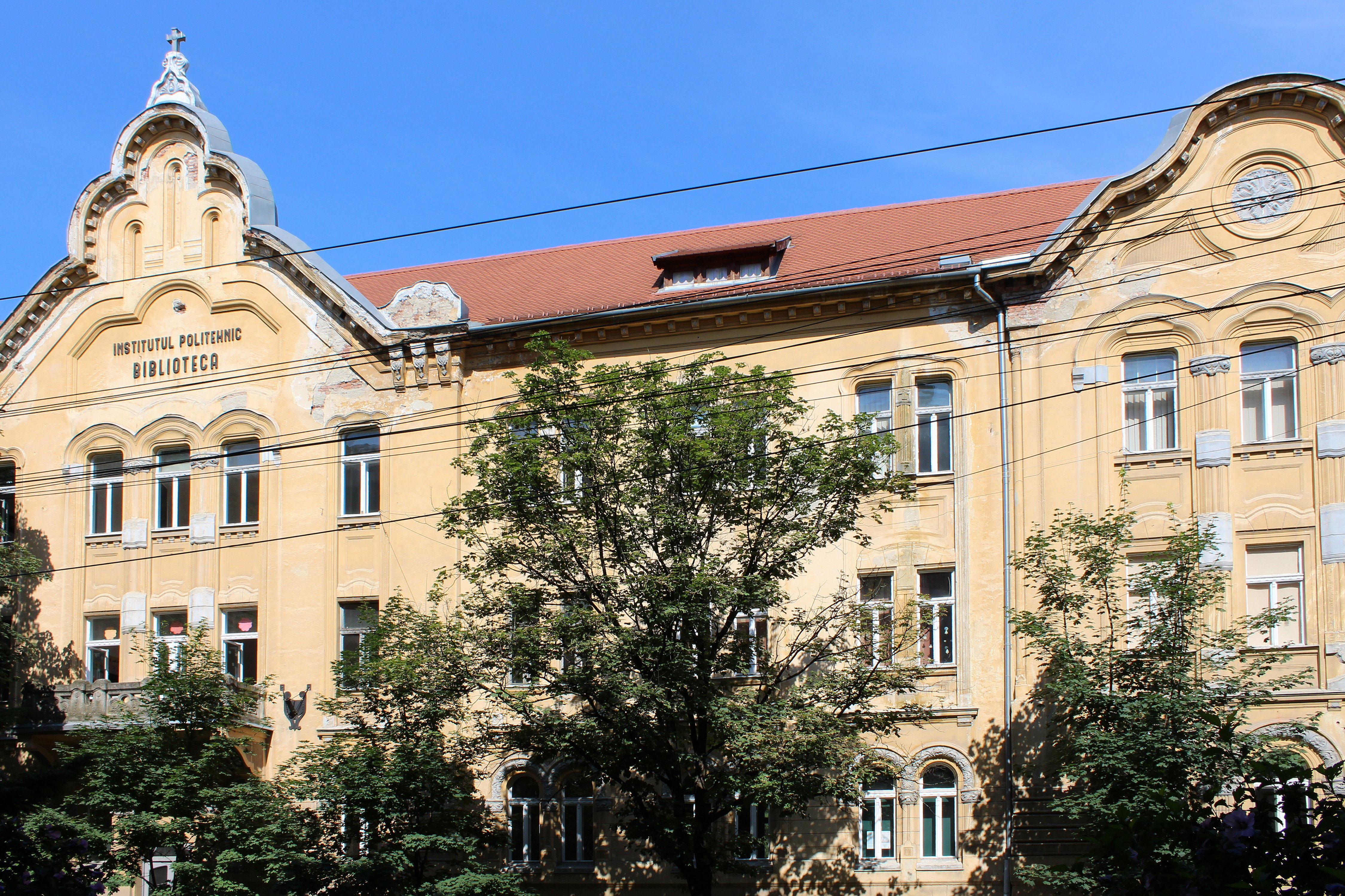 The old library of the University Politehnica Timisoara, in the building of Piarist High School